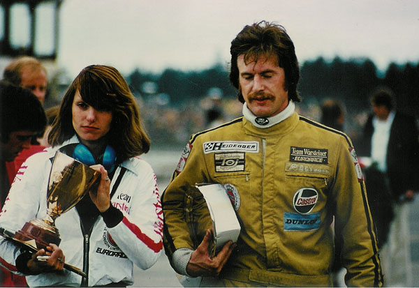 German driver Peter Scharmann and his wife Sigrid after his win in Formula Super V at Nurburgring/Germany in 1976